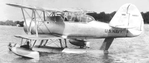 Stearman XOSS-1 floatplane.